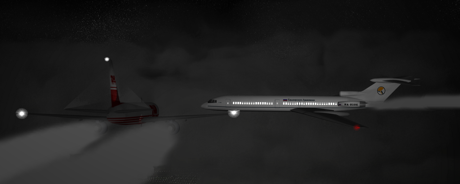 Bashkirian Airlines Flight 2937